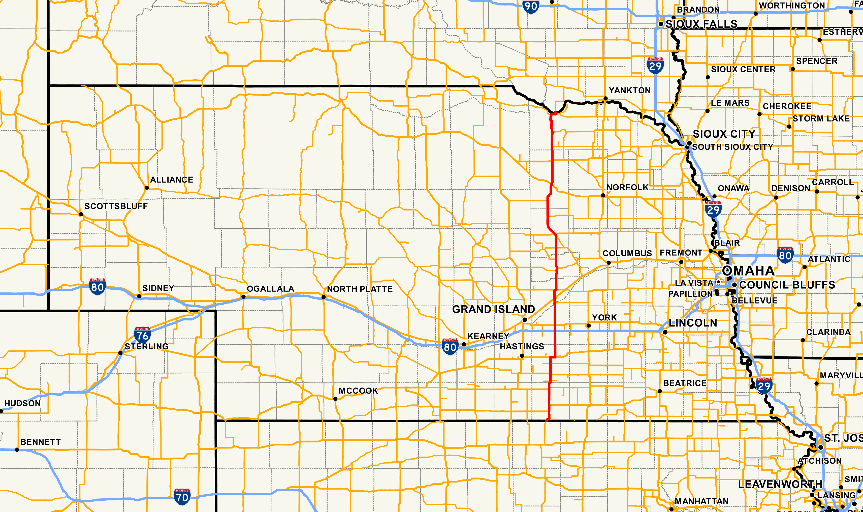 Map of Nebraska Highway 14 Data Sources: Nebraska Highways - - Dec 2016 Nebraska County Boundaries - - Dec 2016 Nebraska City Boundaries - - Dec 2016 This PNG graphic was created with QGIS